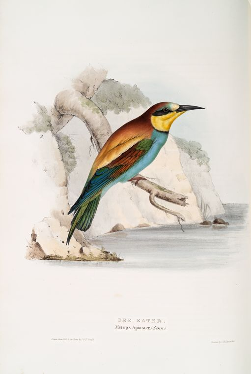 Merops apiaster (Bee eater)